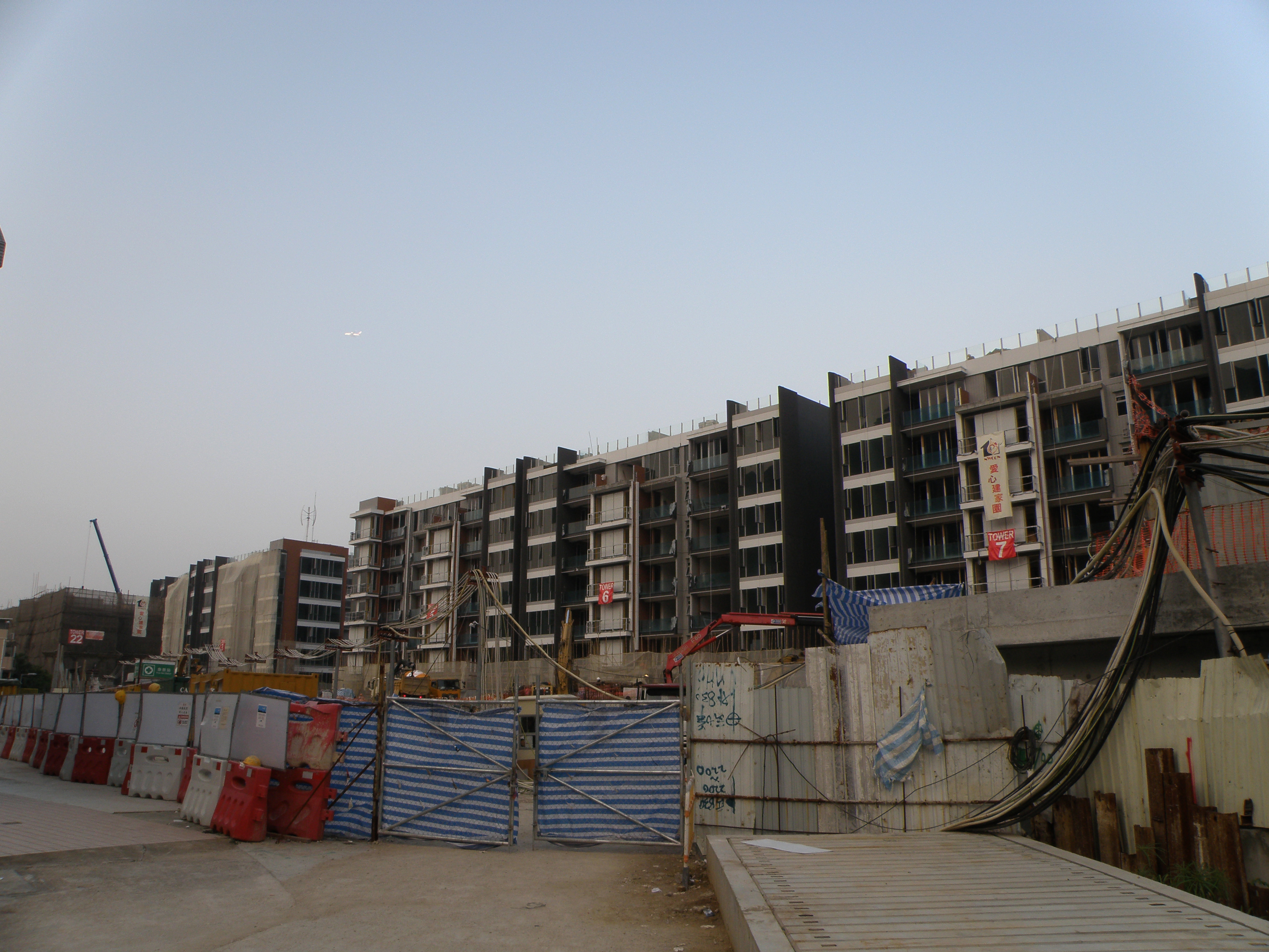 Mount Pavilia in Sai Kung, Hong Kong.